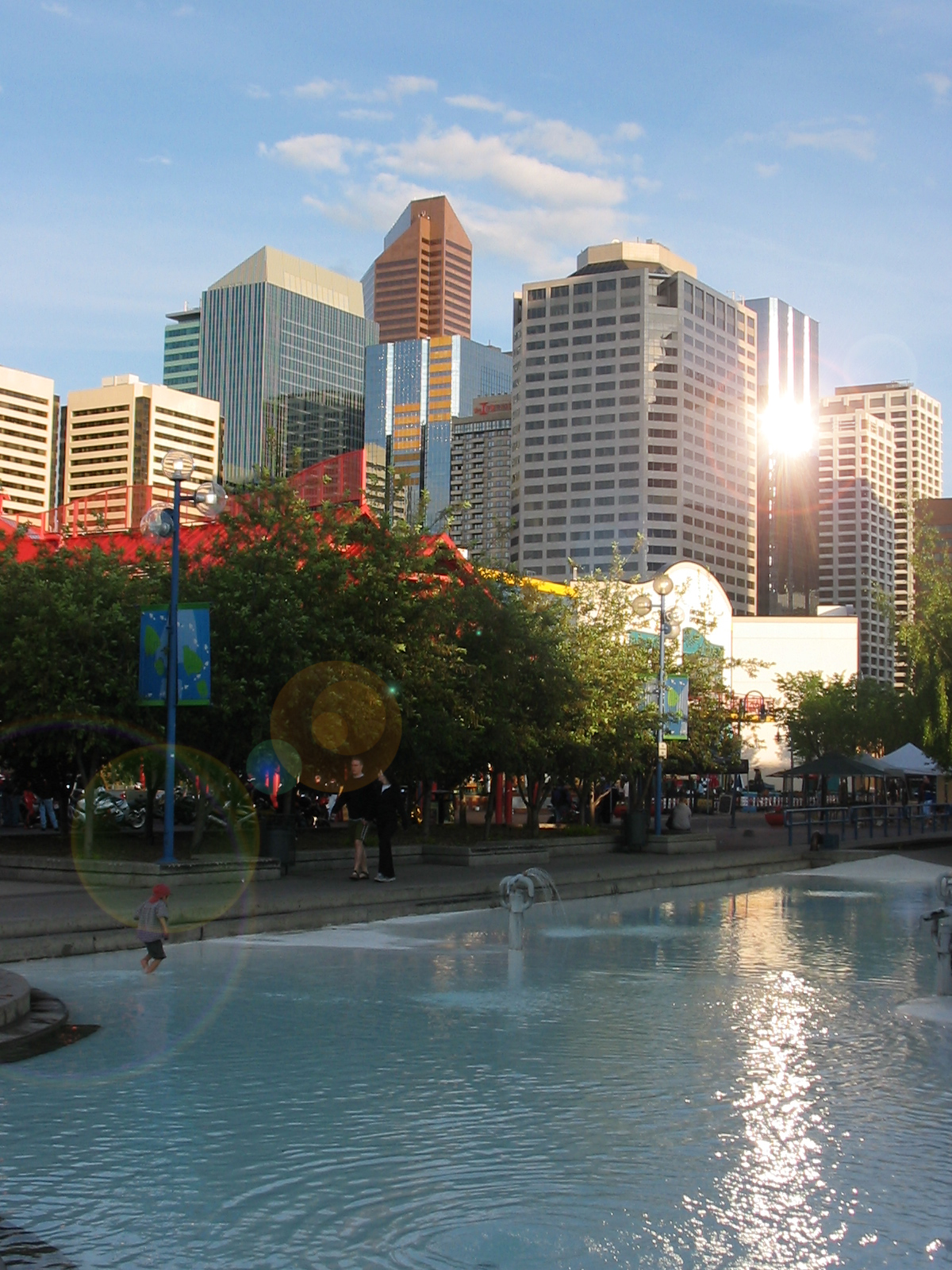 Downtown Calgary. In the foreground is festival plaza of the Eau Claire neighbourhood.